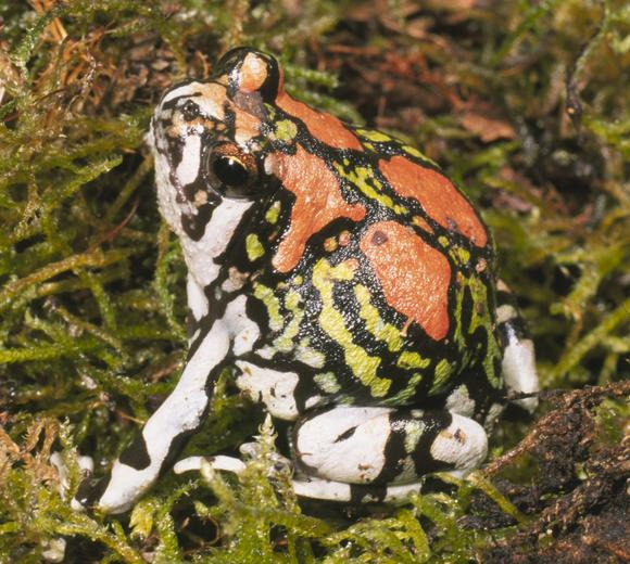 Scaphiophryne gottlebei